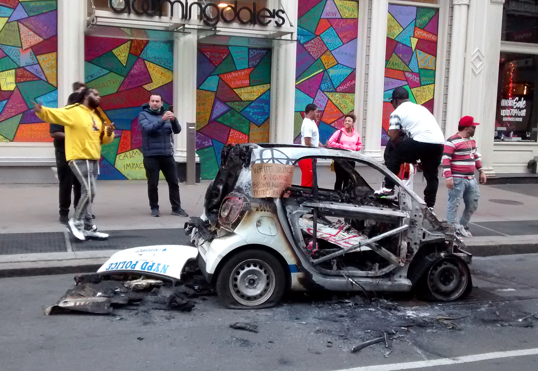 a person posing on a burnt-out police vehicle on Broadway in the SoHo neighborhood, Manhattan, seen on May 31, 2020, during the George Floyd protests